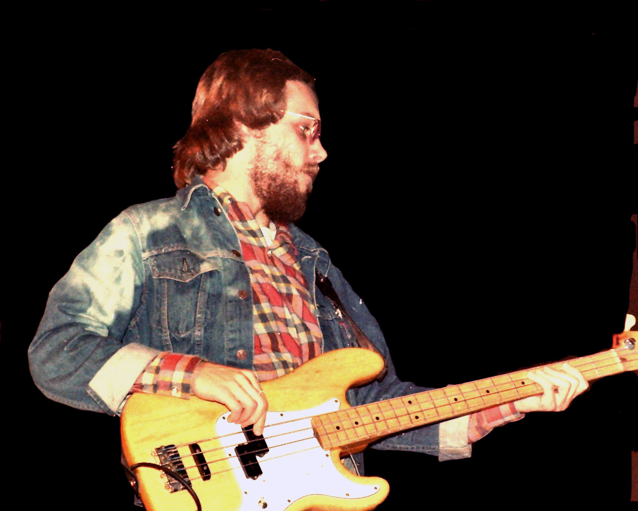 1972 - Tim Bogert, bass & vocals - Beck, Bogert & Appice